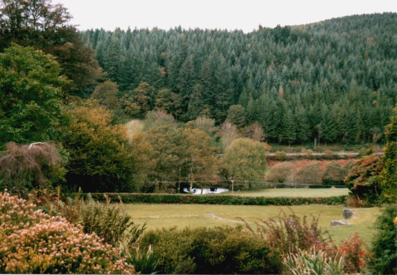 A November 2006 view of the Dyfi forest near Pantperthog in Gwynedd, Wales. Taken from the garden of Plas Llwyngwern